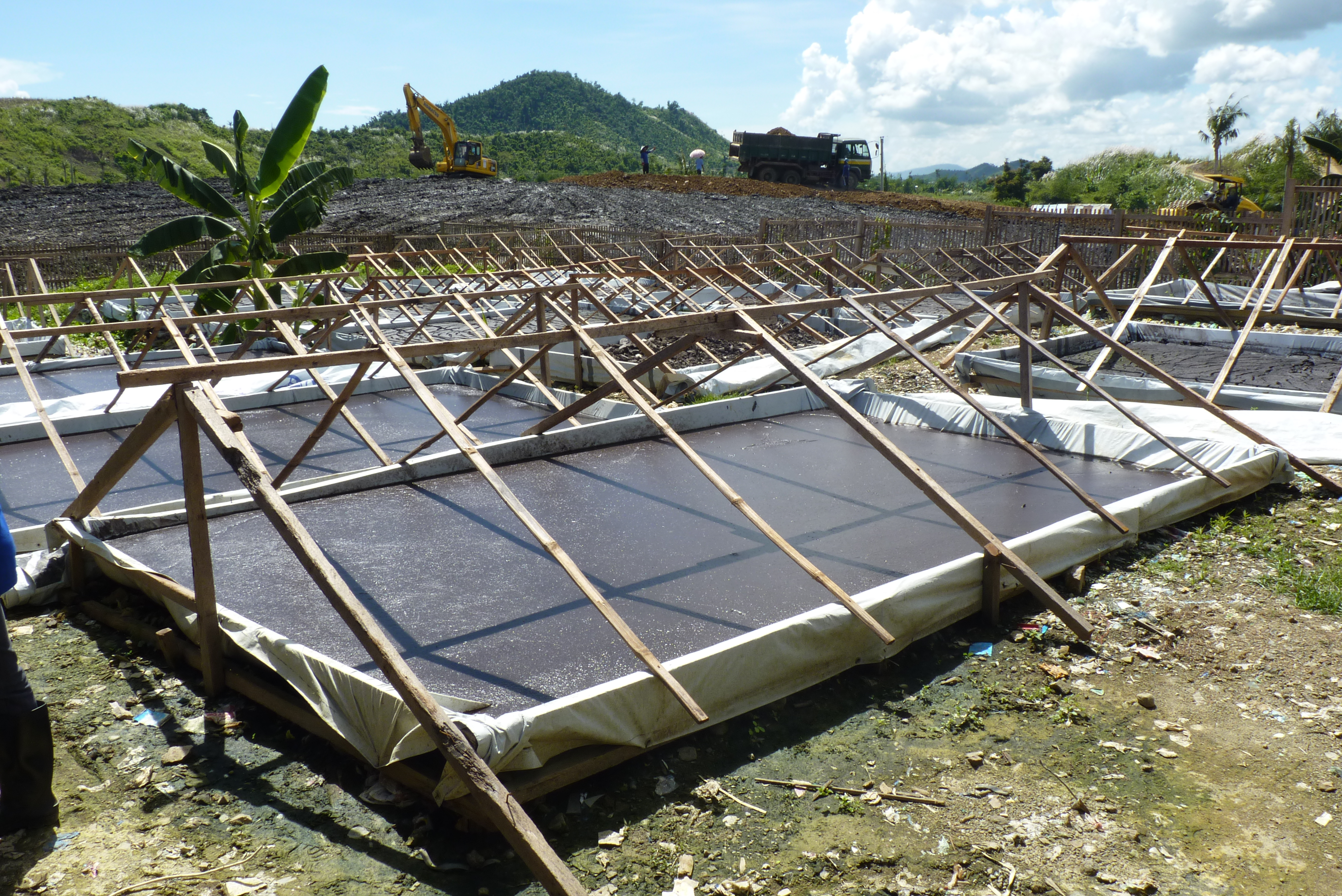 Sand drying bed for emergency septage treatment Oxfam Philippines